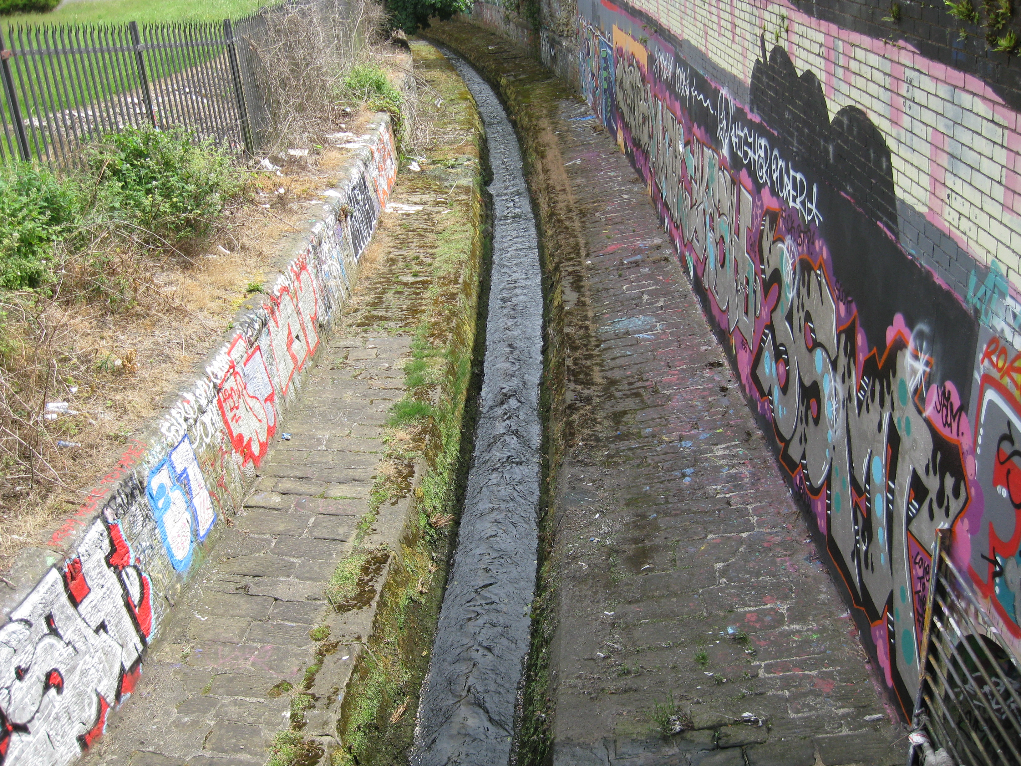 Sheepscar Beck viewed from Buslingthorpe Green, looking South